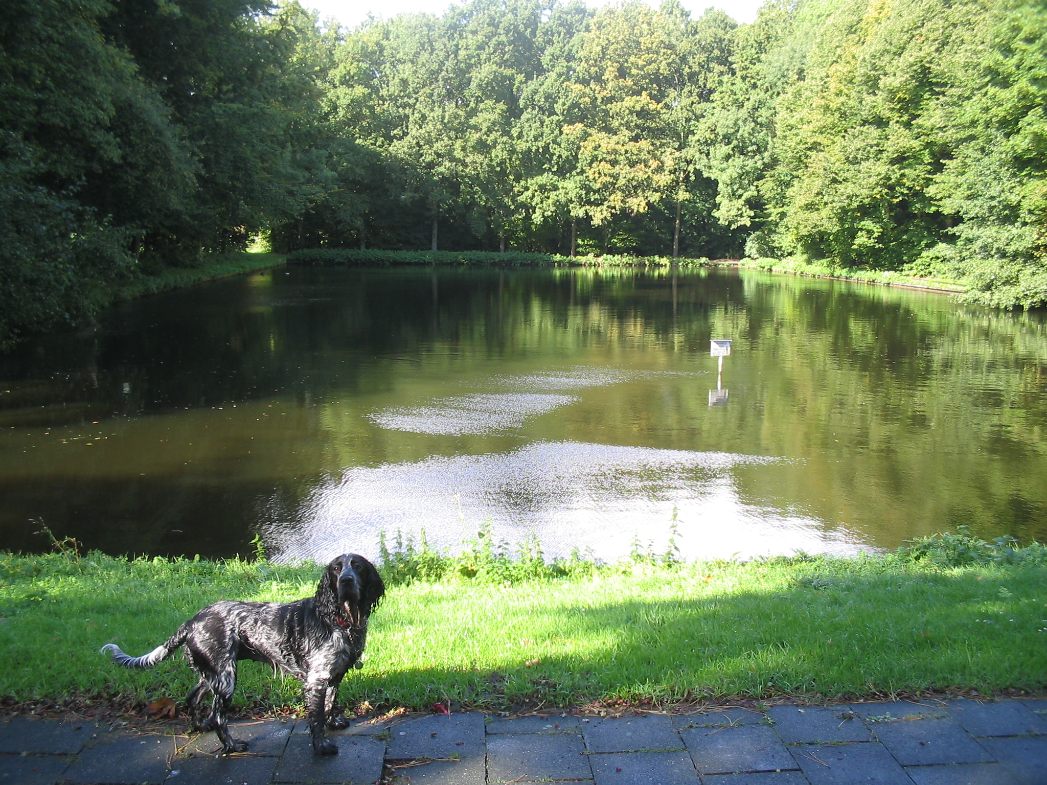 French pool (Franse vijver), Rijswijkse Bos, Rijswijk